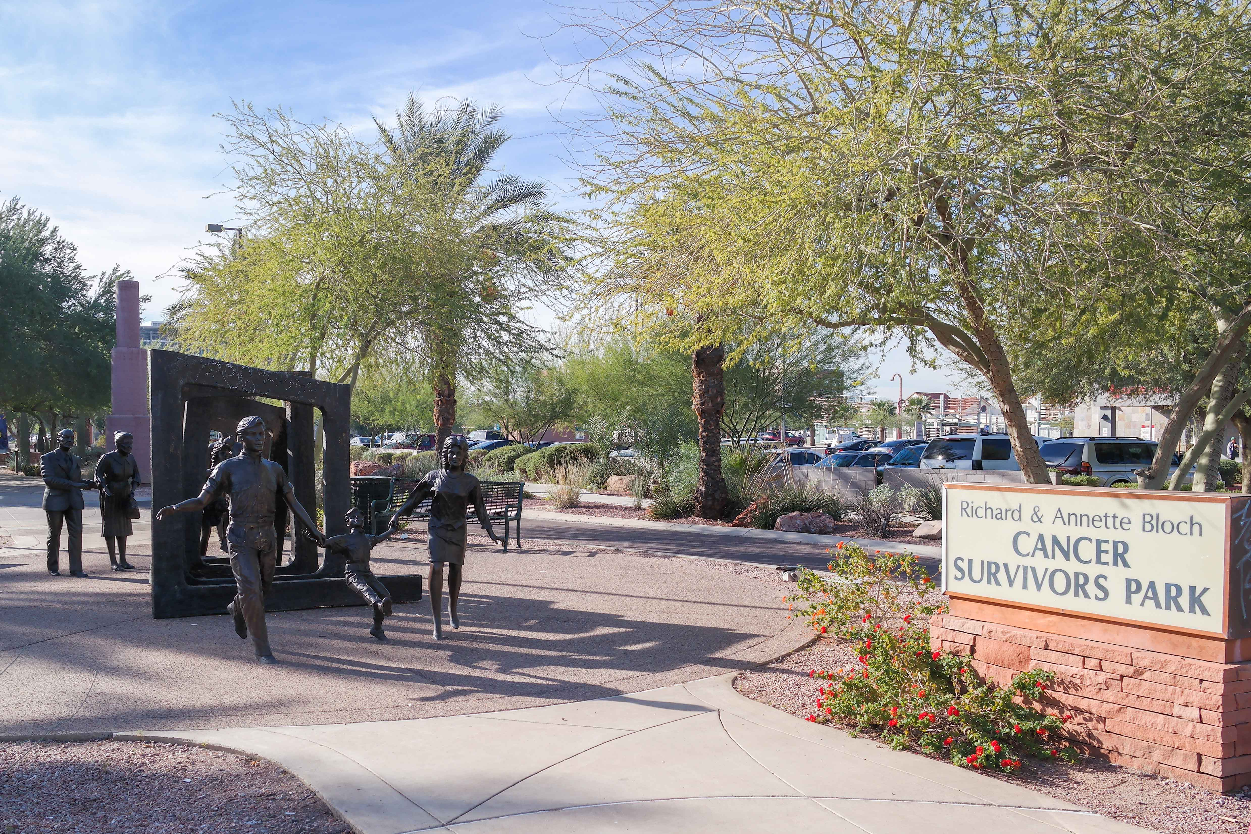 Cancer Survivors Park in Phoenix, Arizona